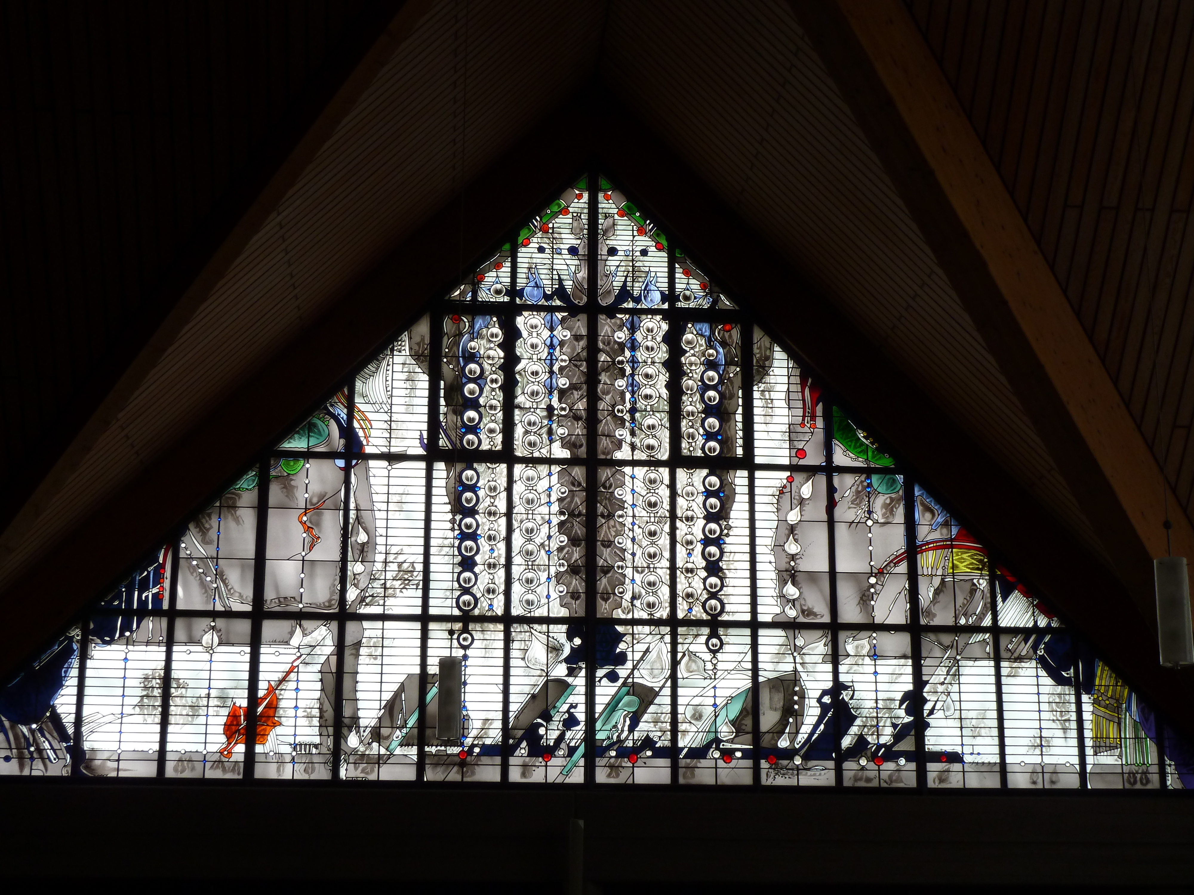 own file